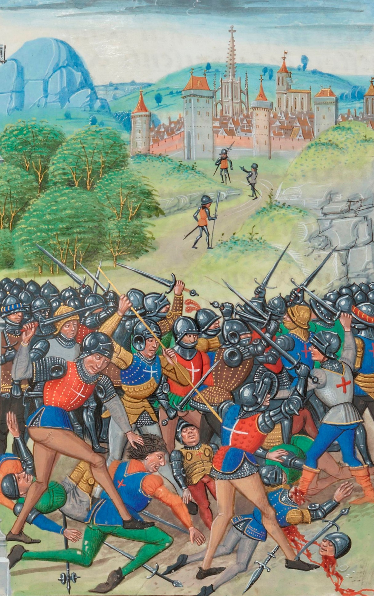 Anointing of Pope Gregory XI. Battle of Pontvallin (1370). Bibliotheque Nationale MS Fr. 2643